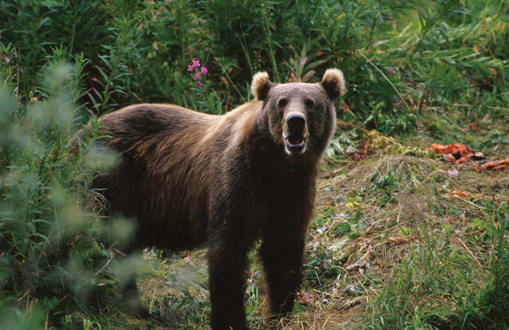 Kodiak Brown Bear (Ursus arctos middendorffi)